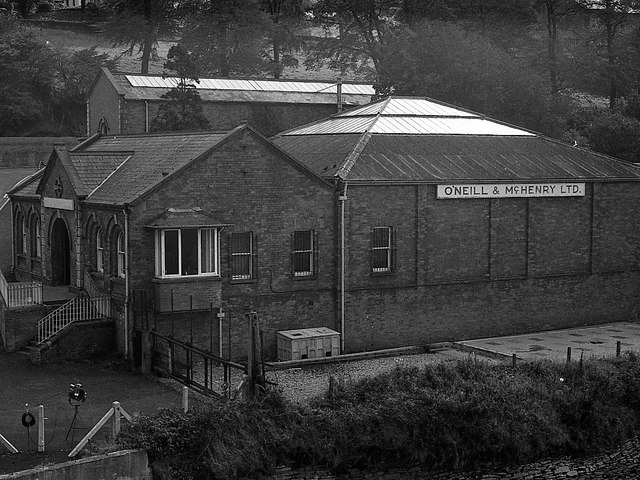 O'Neill & McHenry building, Victoria Road. One terminus for the 3' gauge County Donegal railway line to Strabane (closed 1954), the station buildings later became a warehouse for O'Neill & McHenry Limited. A small railway museum was also located here in the... more